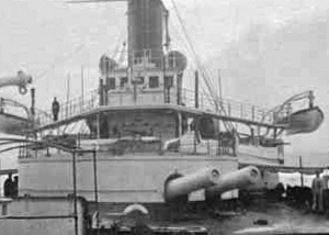 Photograph showing BL 12 inch guns of British ironclad warship HMS Conqueror. This is a clipped section from Image:HMS Conqueror Forecastle Guns.jpg.